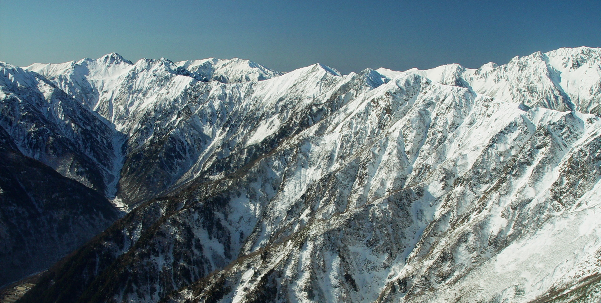 Mount Harinoki etc from Mount Jii